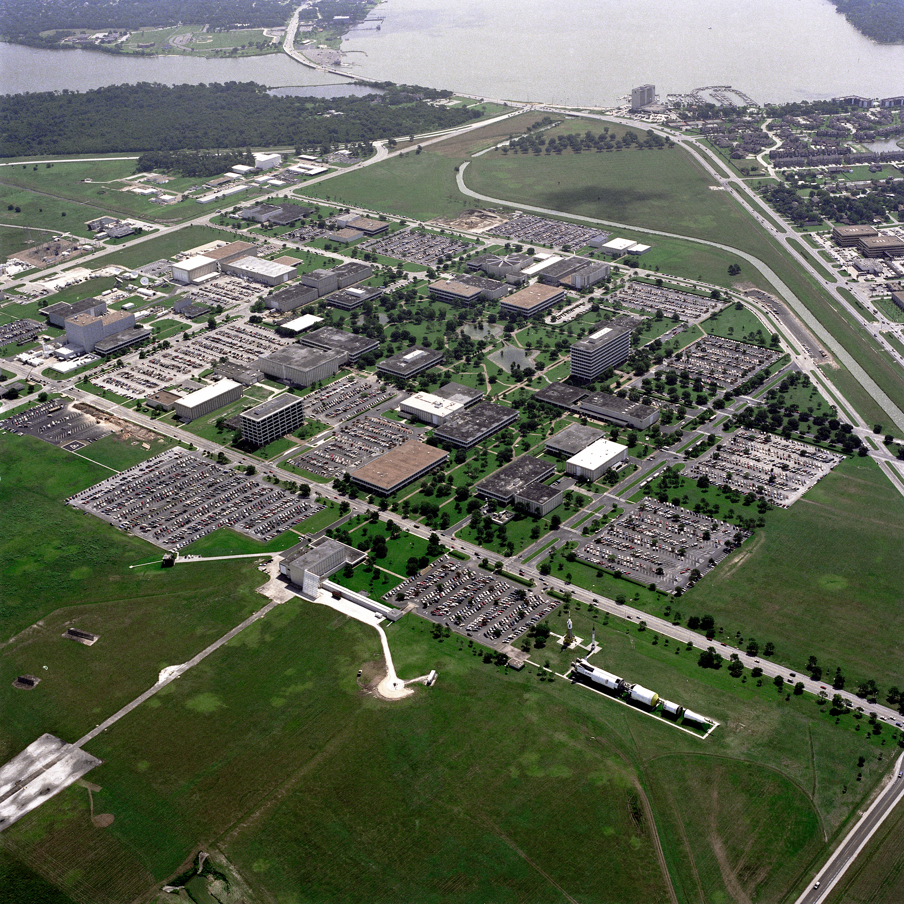 An aerial view of the complete Johnson Space Center facility in Houston, Texas. A portion of Clear Lake can be seen at the top of the view.